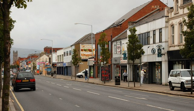 The Newtownards Road, Belfast (part). The view inwards along the Newtownards Road, near the Arches 599487, close to the Connswater bridge.